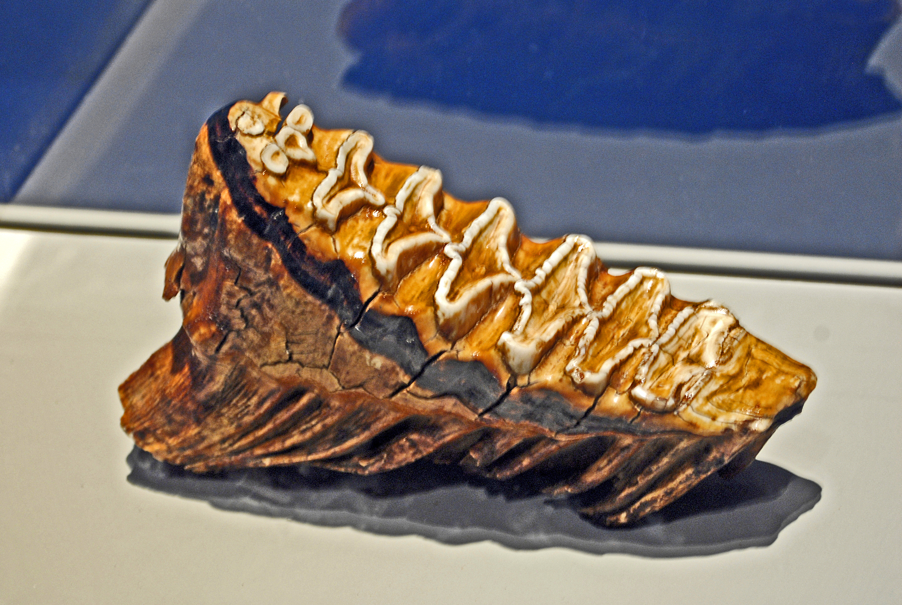 Molar of an adult African bush elephant. On display at the Museo Civico di Storia Naturale di Milano